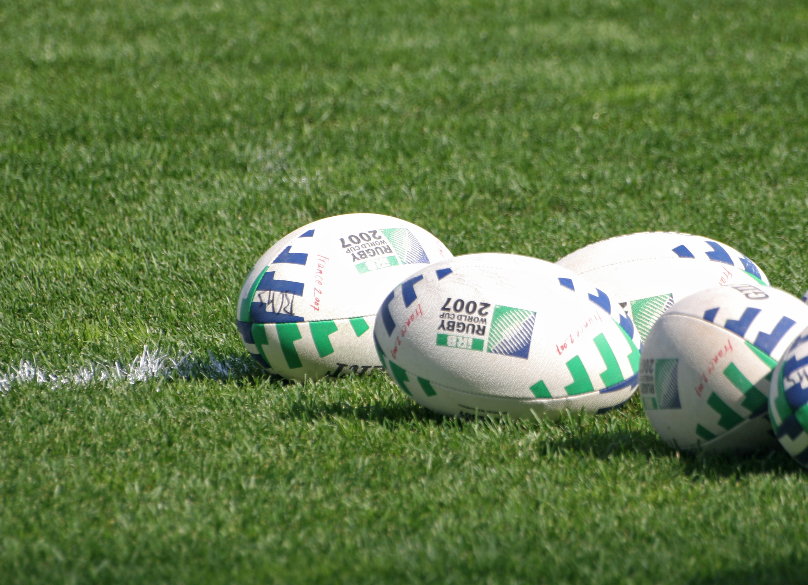 Official 2007 RWC balls befere quater-final between South Africa and Fiji.